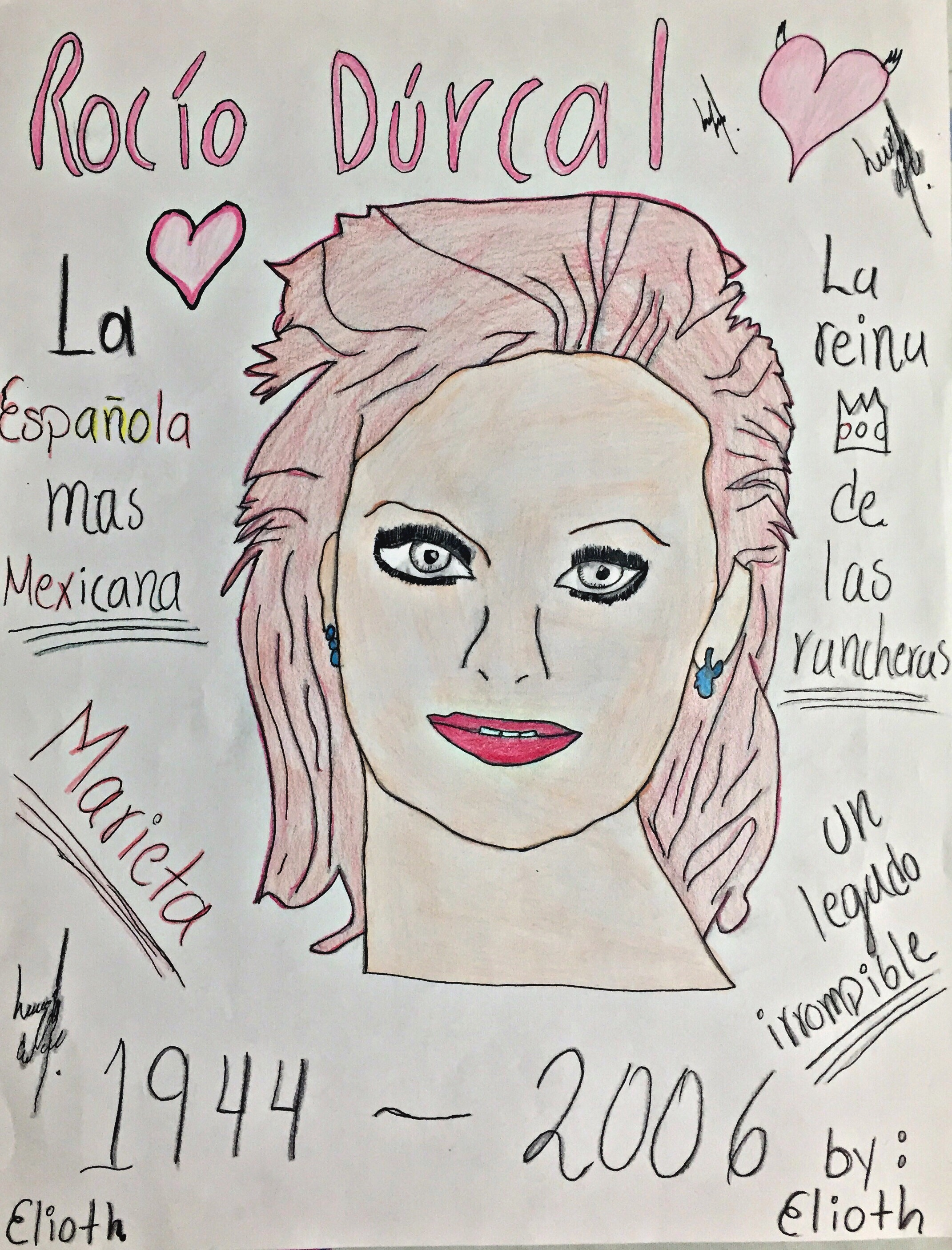 Draw I made myself depicting Spanish singer Rocío Dúrcal.